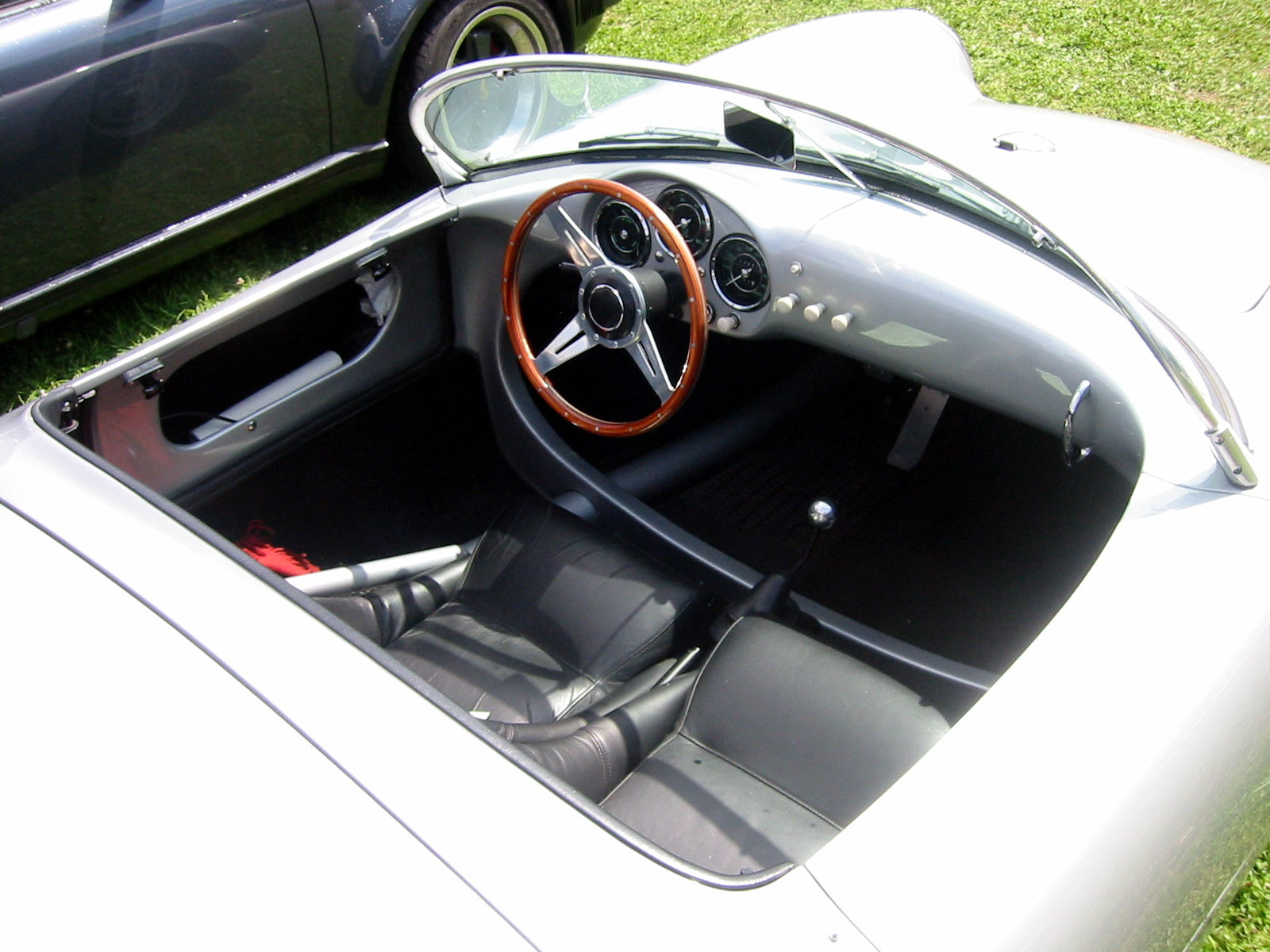 Porsche 550 replica cockpit.